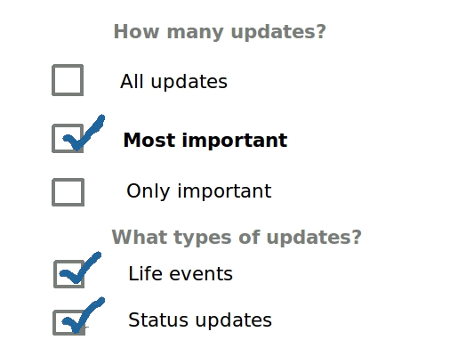 An Internet menu showing check mark boxes for user preferences. The check marks indicate which particular preferences are preferred or are in effect. A user can move a cursor over specific choices, and press a mouse button to un-select or unclick specific preferences.